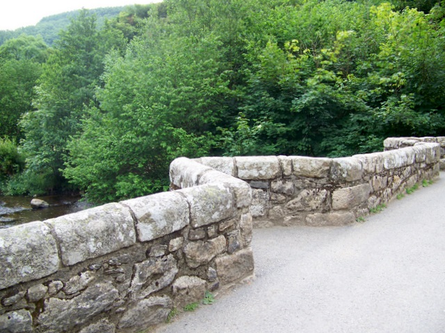 Fingle Bridge Fingle Bridge is a narrow road bridge over the River Teign. It dates from between the 16th and 17th century. The bridge is Grade II listed.